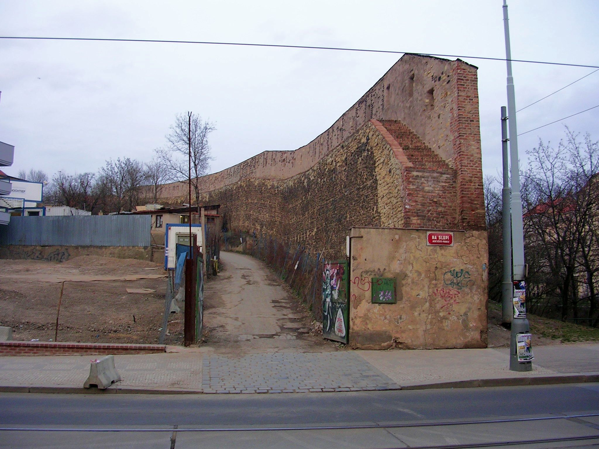 Gothic city walls of New Town, Prague (today the Czech Republic).